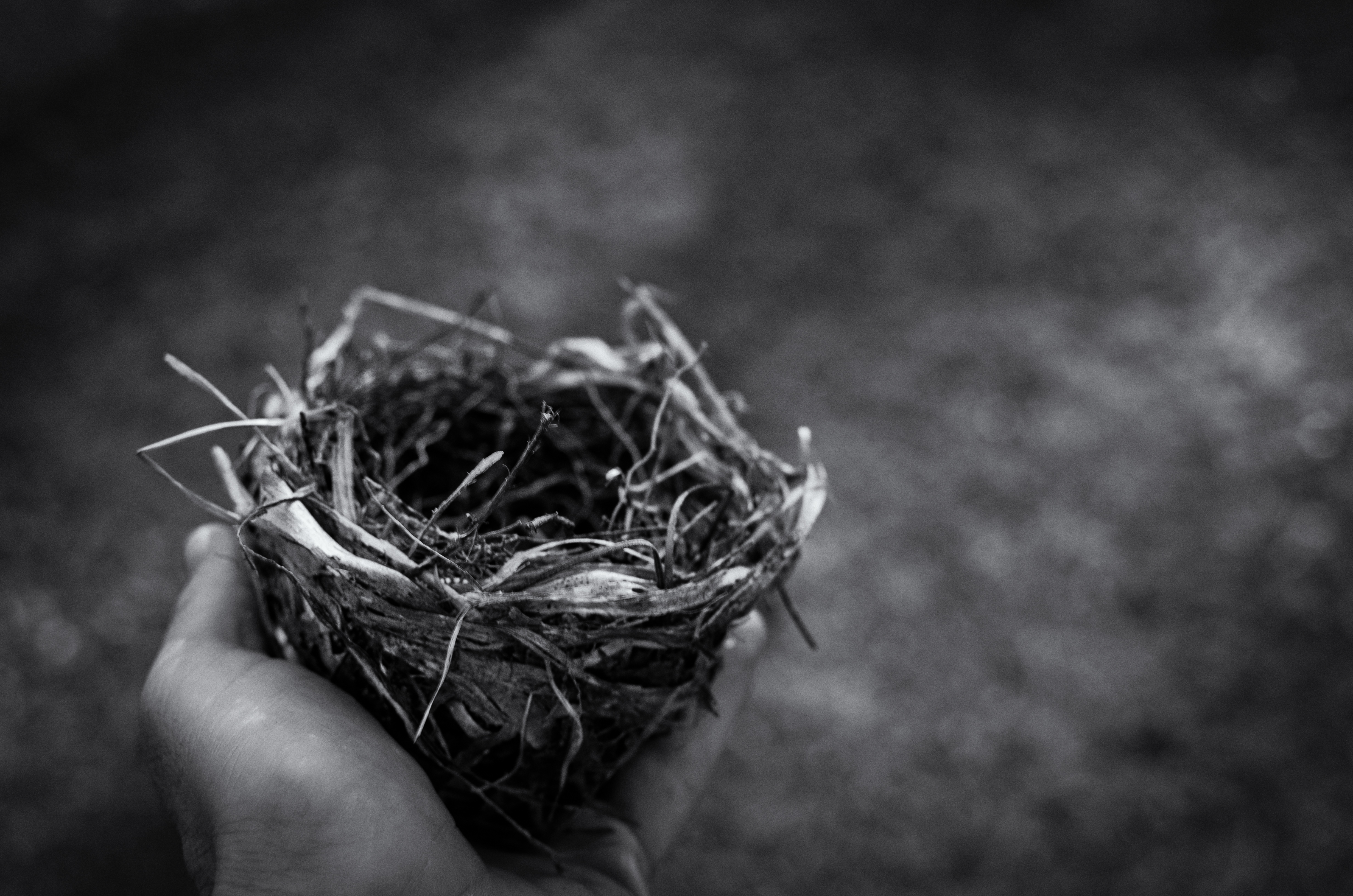 Berlin, United States